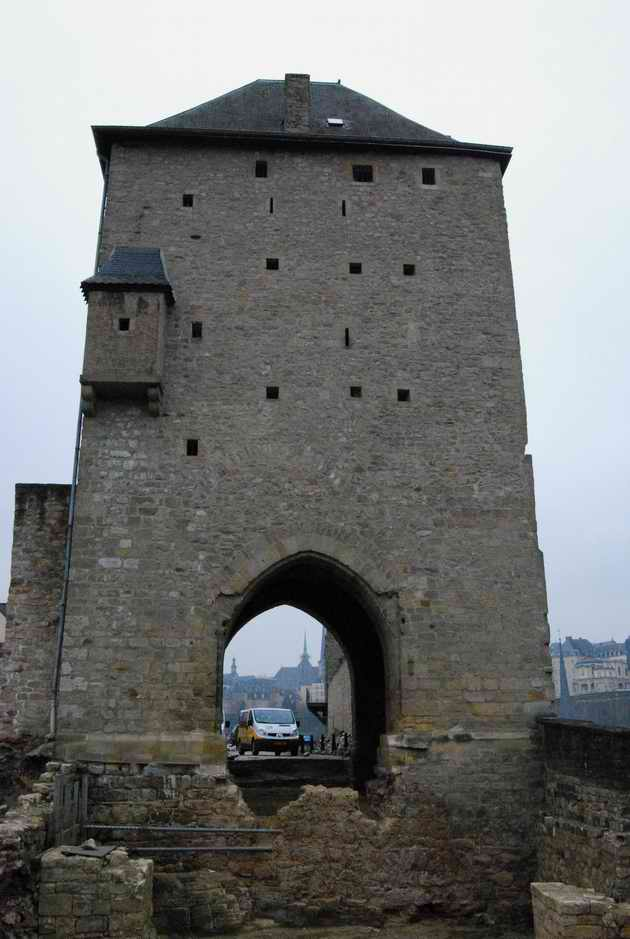 The old Trier gate.